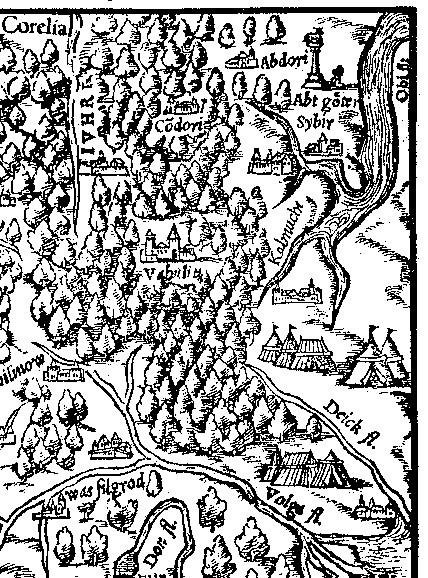 Detail of a map in Sebastian Muenster's Cosmographia